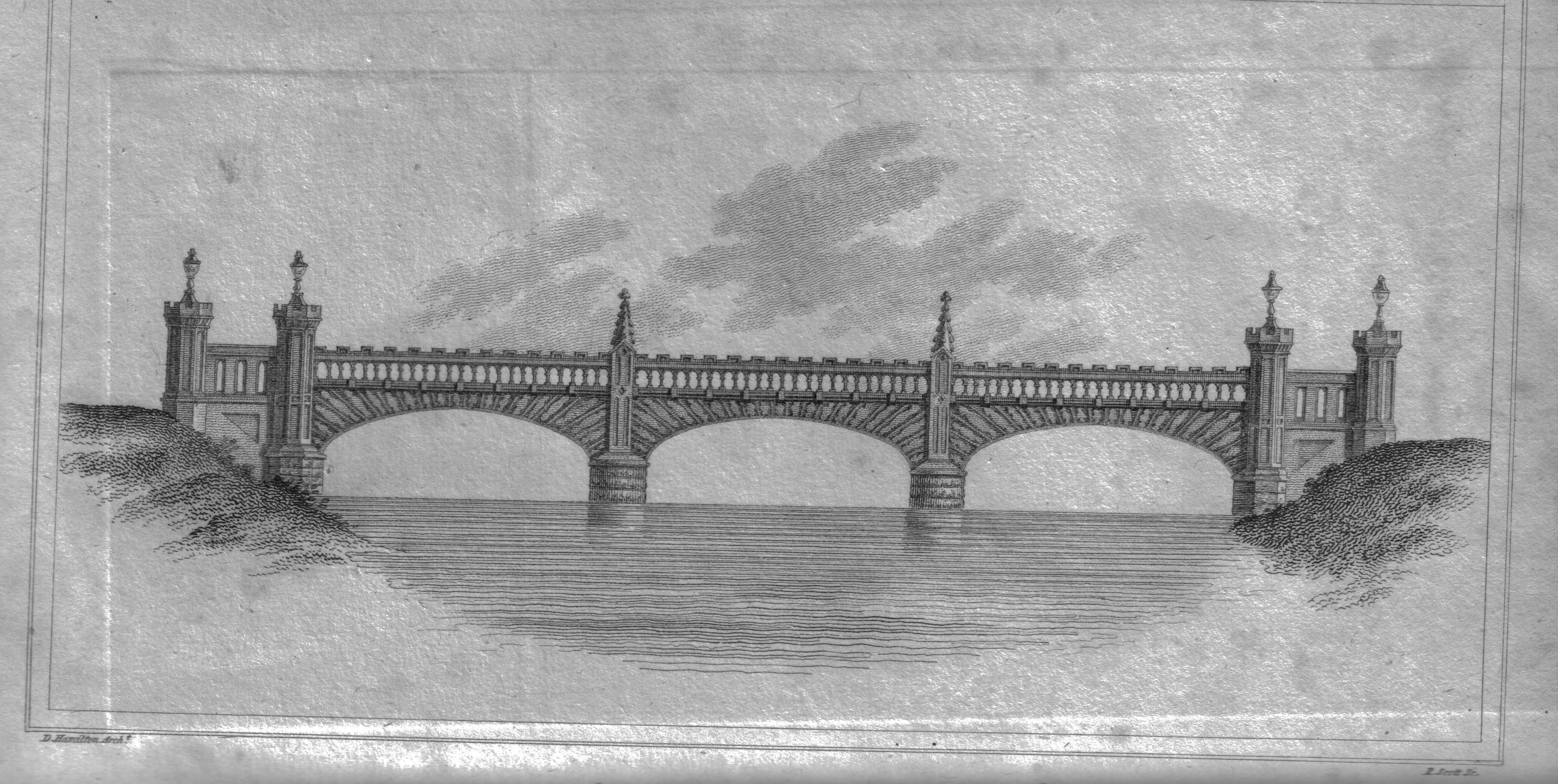 Eglinton Castle Bridge over the Lugton Water. Irvine, North Ayrshire, Scotland